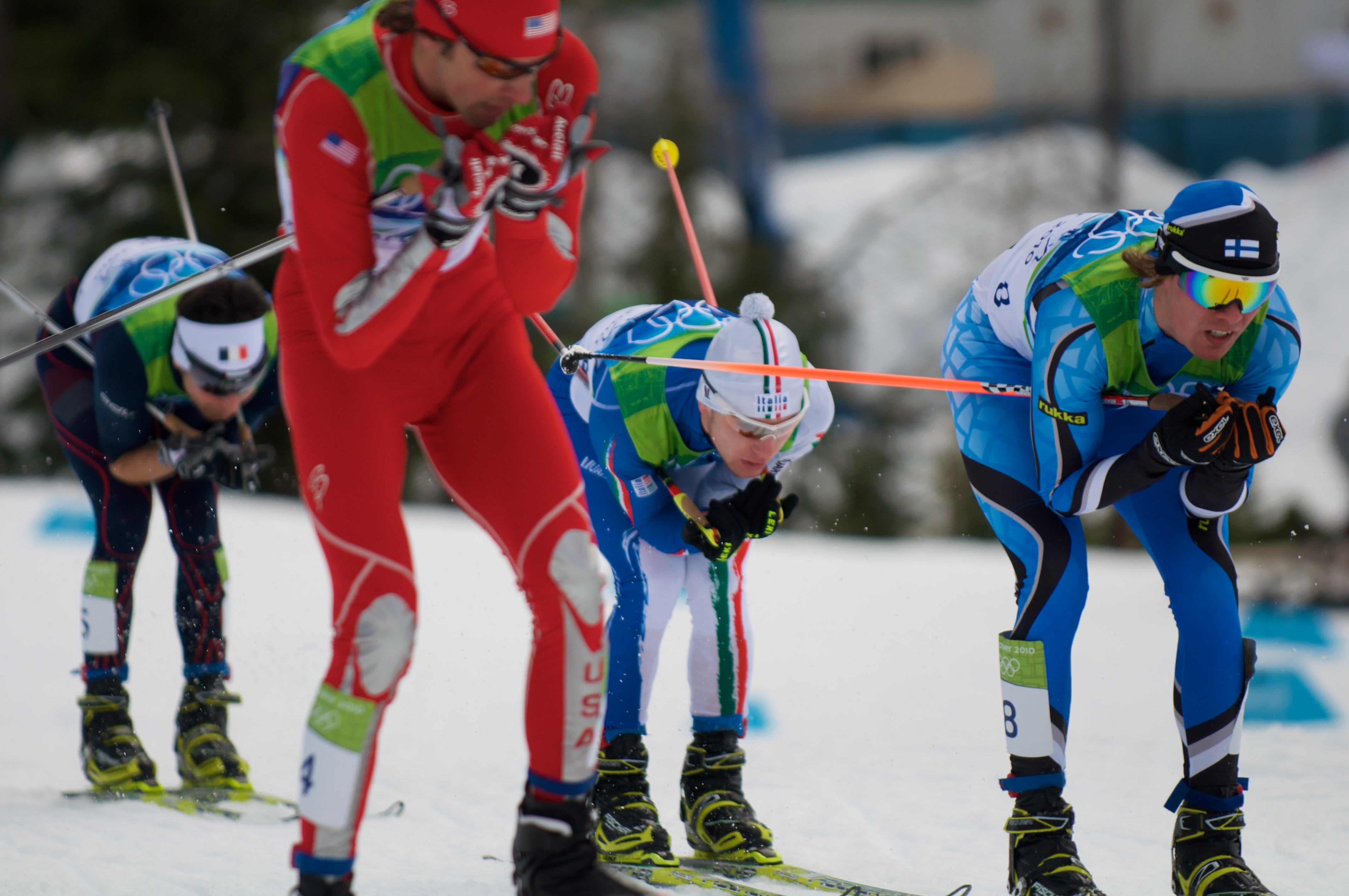 Leading group of combined skiers (left to right: Jason Lamy-Chappuis (FRA - later winner), Johnny Spillane (USA - silver medal), Alessandro Pittin (ITA - bronze medal) and Anssi Koivuranta (FIN - 8th place)) during the individual normal hill/10 km event at the 2010 Winter Olympics.